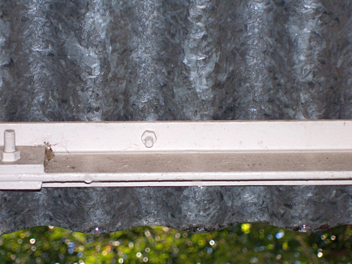 Photograph by Bill Bradley. billbeee 20:12, 31 October 2007 (UTC) Feel free to use it, just credit me as the photographer. You can contact me through my website